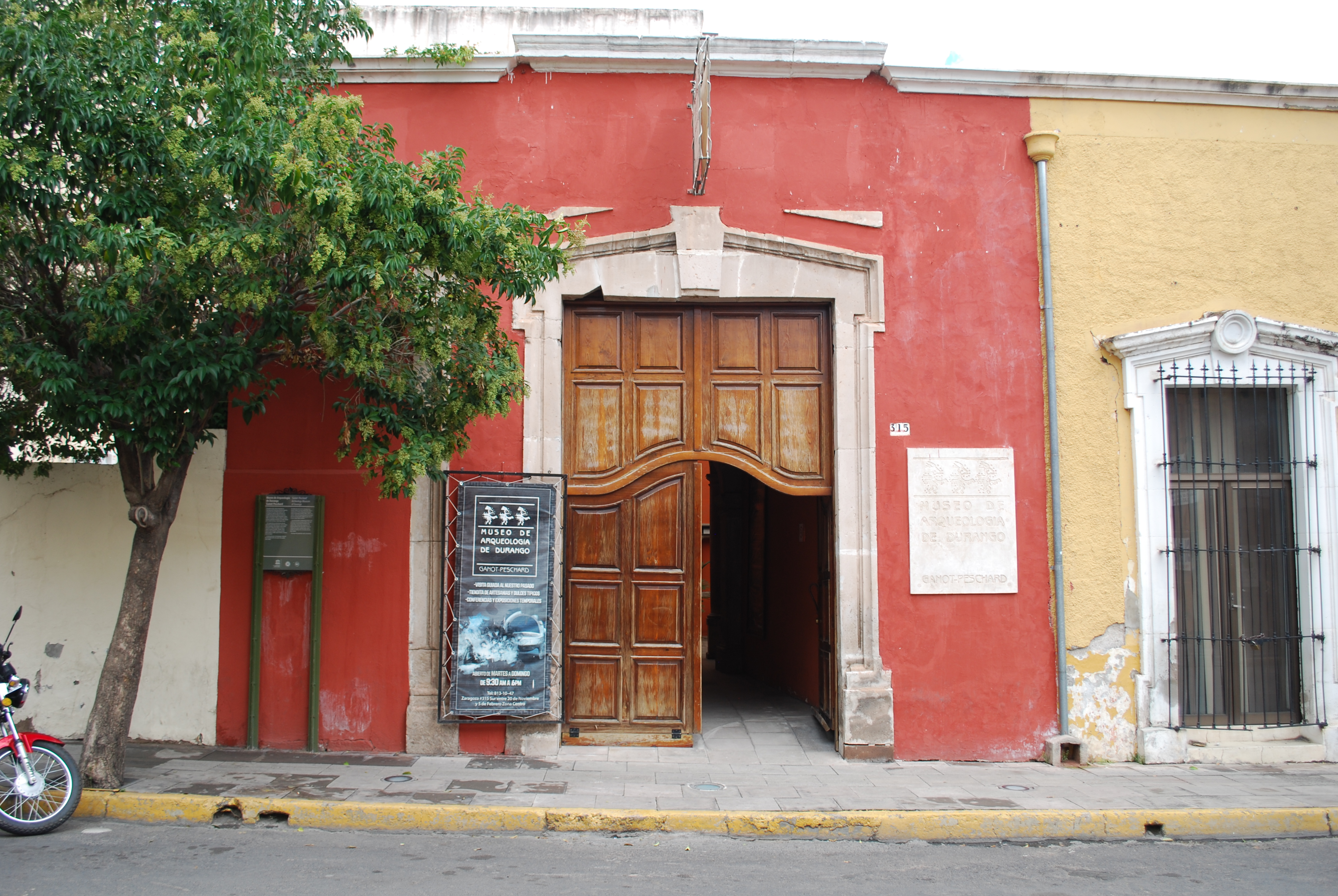 Entrance to the Museo de Arqueología de Durango Ganot-Peschard in Victoria de Durango, Mexico